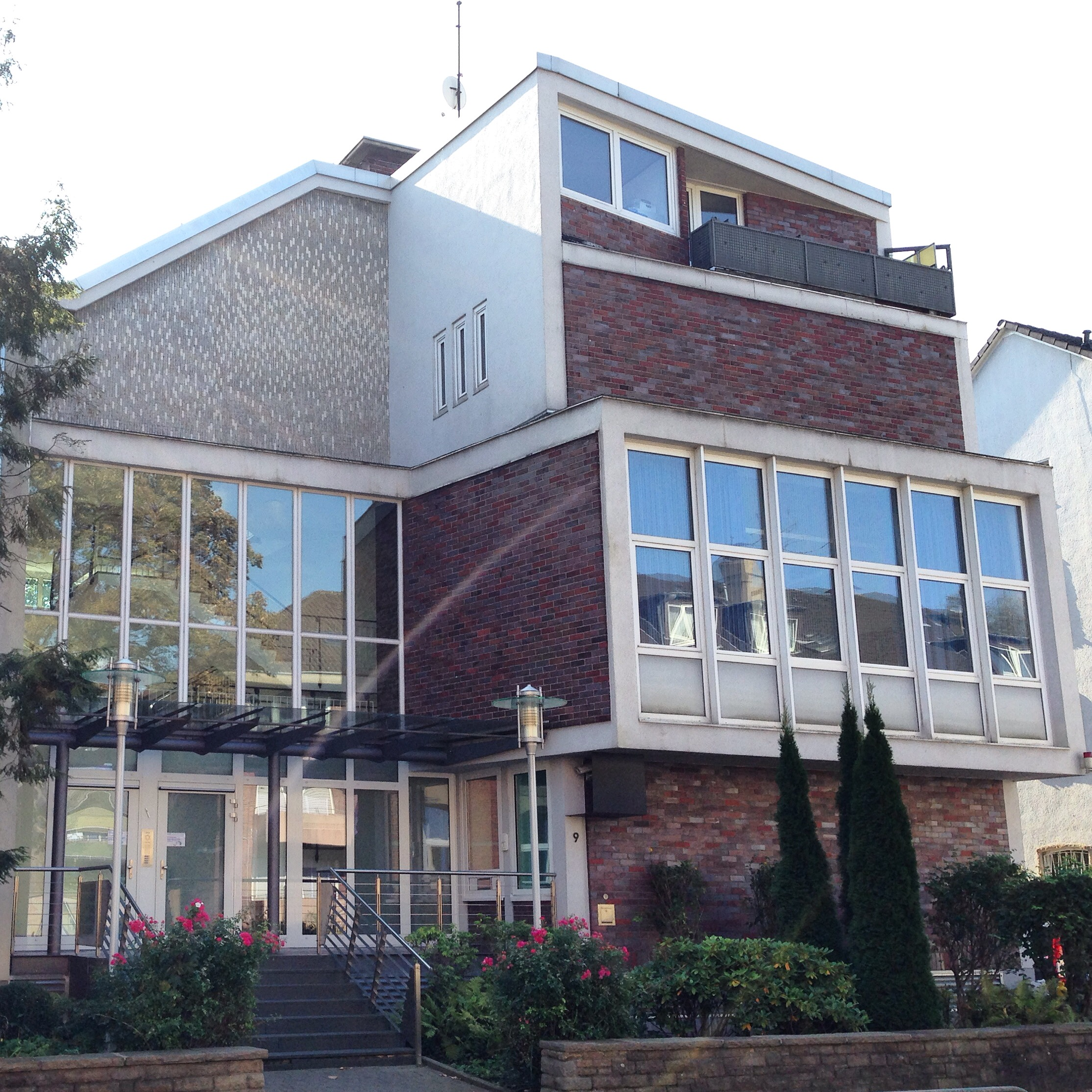 Synagogue Dortmund